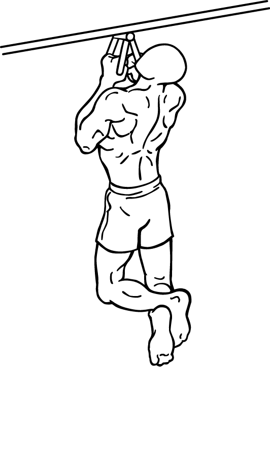 an exercise of upper back